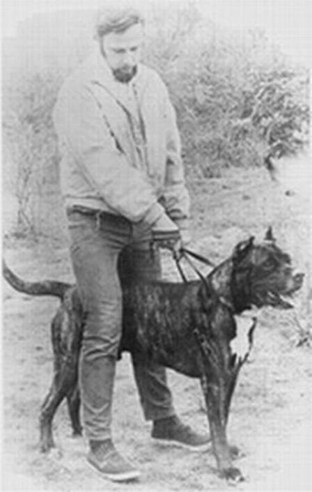 John Swinford, DVM, with Bantu